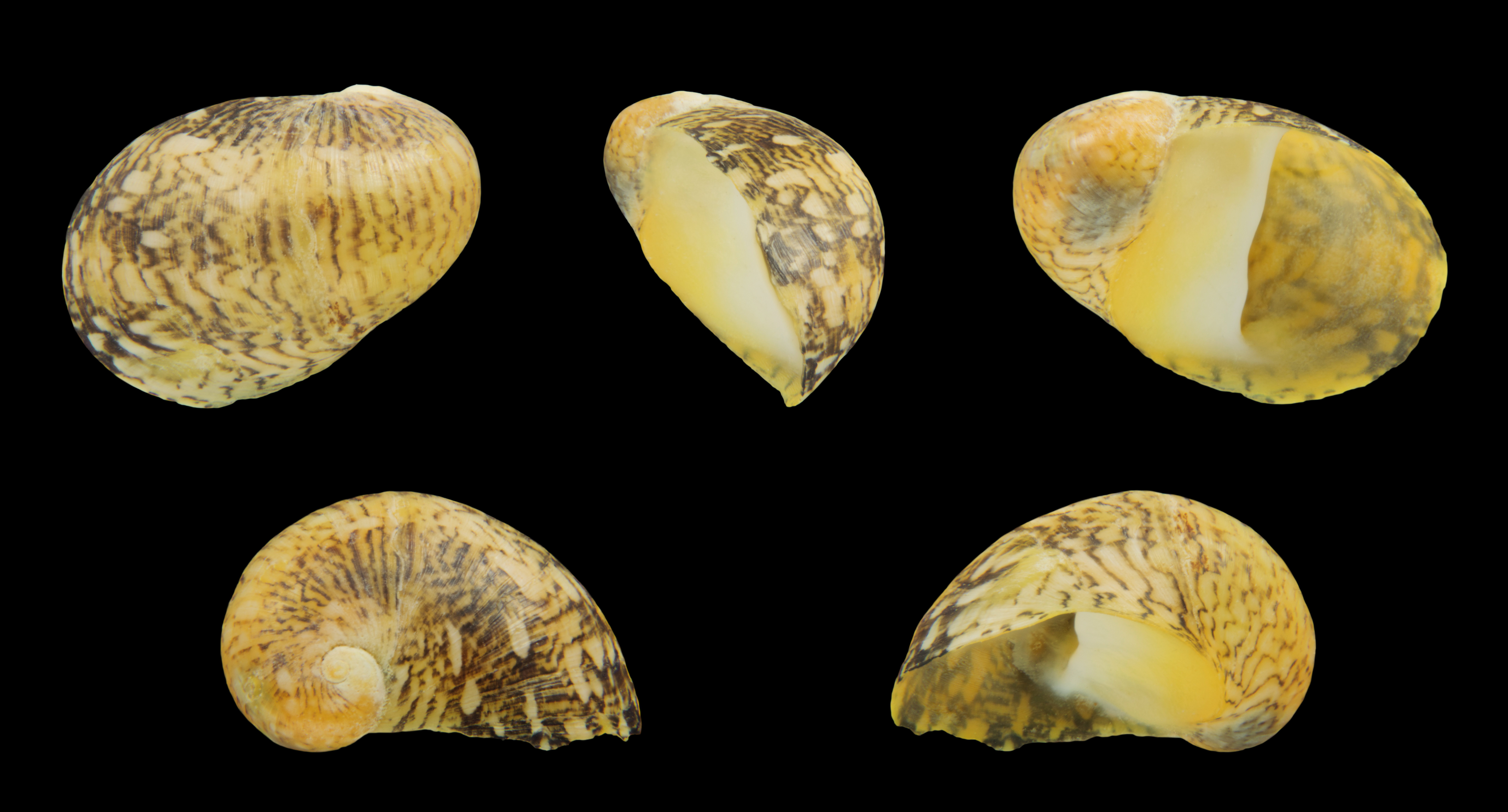 Theodoxus fluviatilis dalmatinus (Sowerby, 1836), Freshwater Nerite; diameter 1.1 cm; Originating from the Lake Ohrid, Albania.